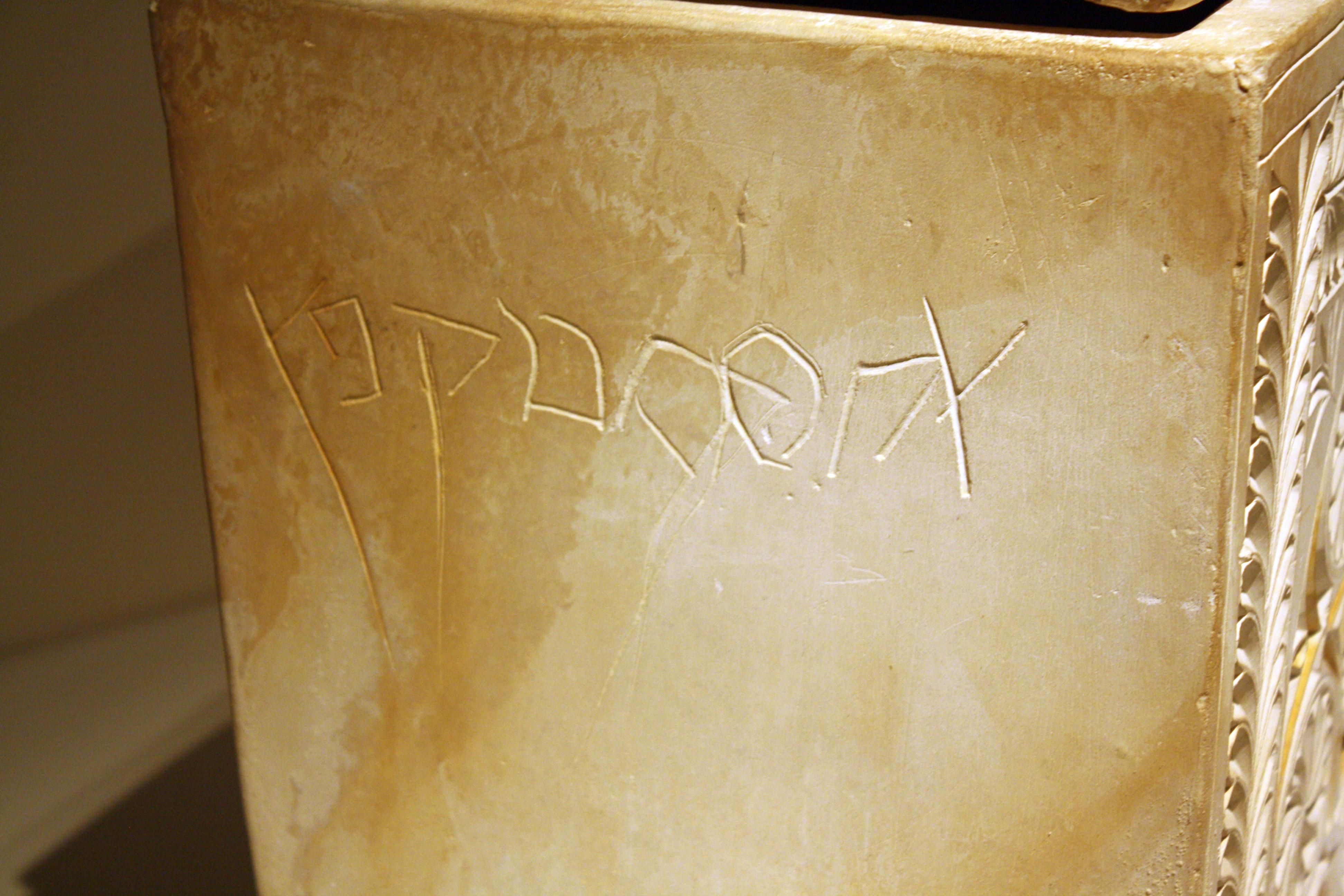 The Ossuary of Caiaphas, the High Priest, in the time of Jesus of Nazareth